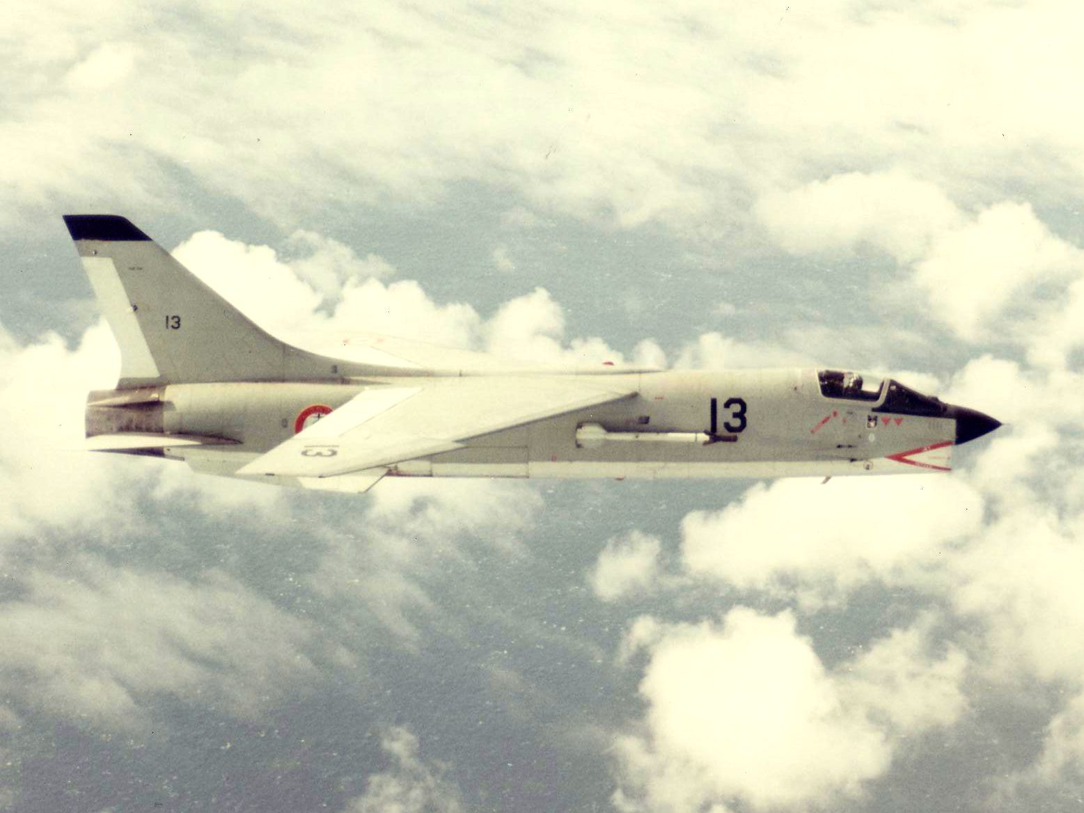 A French Aéronavale Vought F-8E(FN) Crusader in flight over the Mediterranean Sea, in 1976.